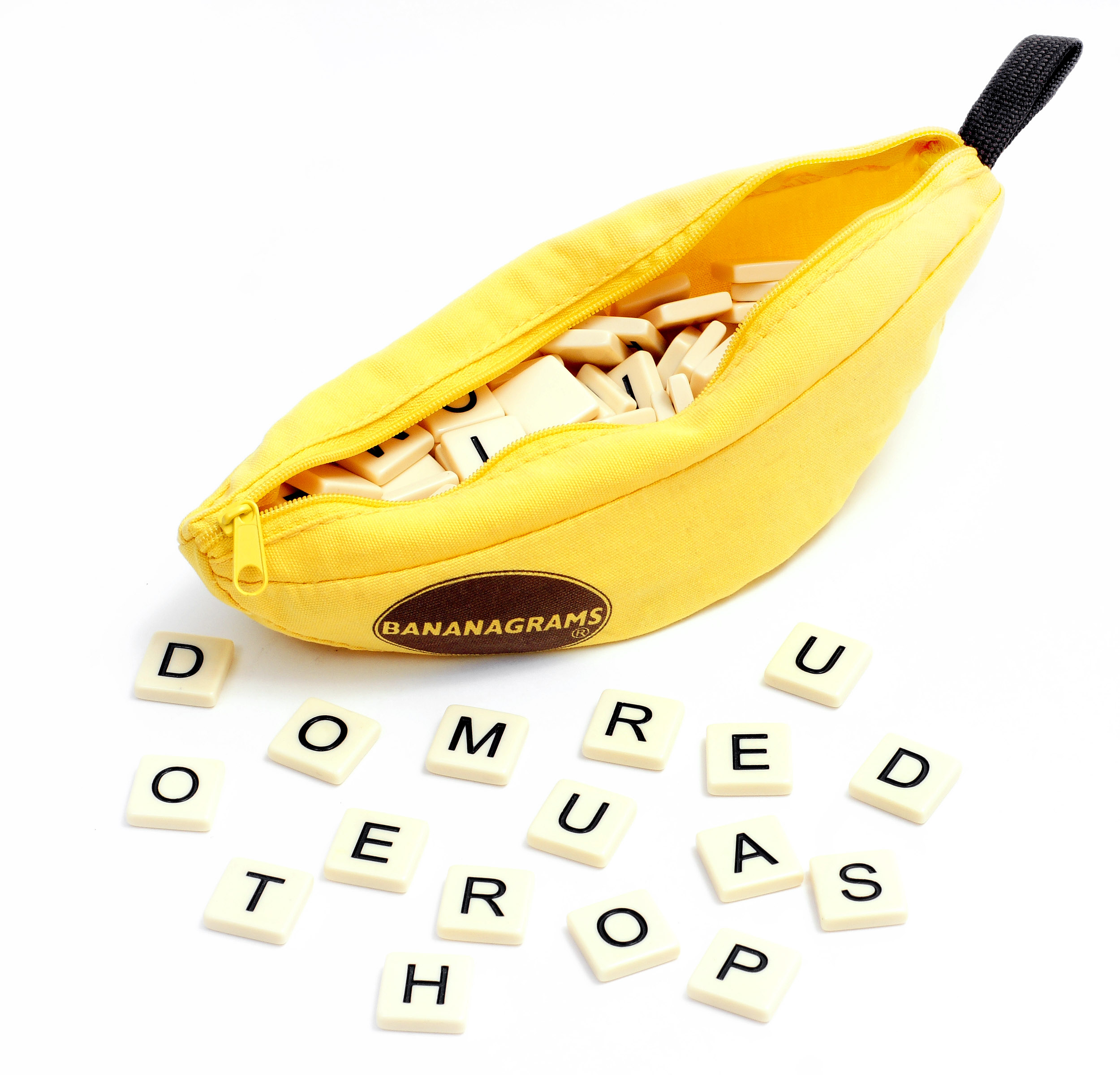 A Bananagrams case and tiles. The case is made of fabric and shaped like a banana. It contains 144 cream-coloured letter tiles which are used to play the game, which is similar to Scrabble.